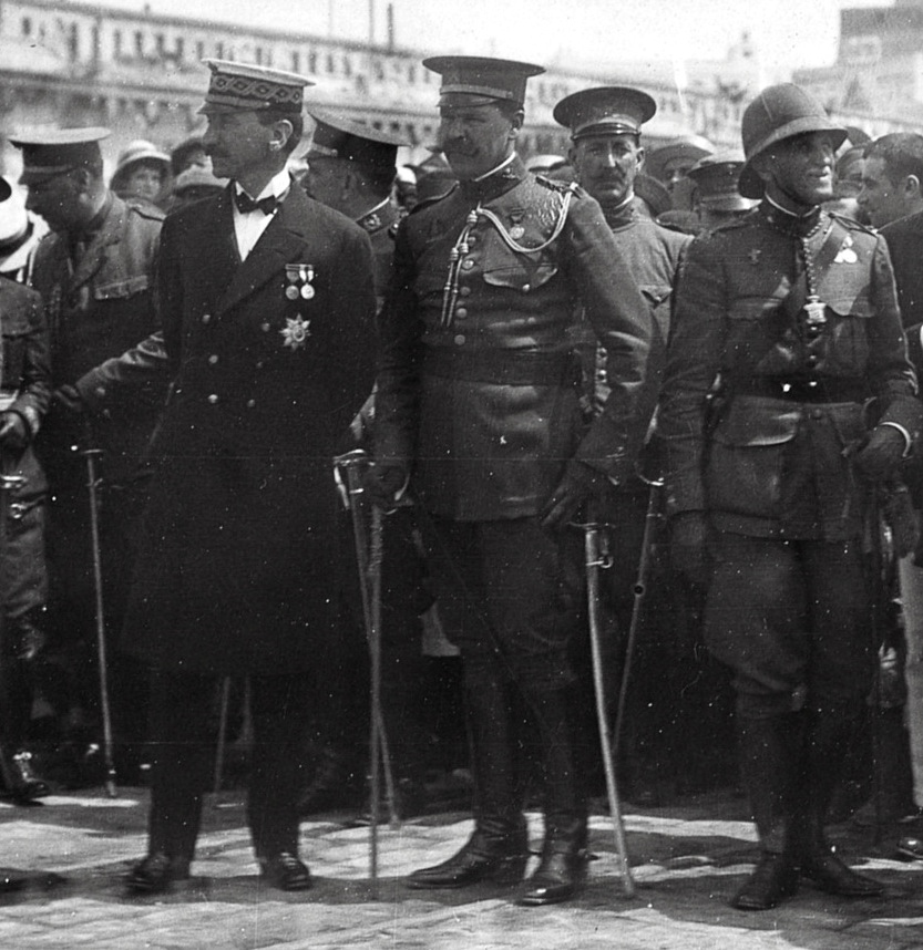 General Manuel Fernández Silvestre with other senior Spanish army and navy officers.